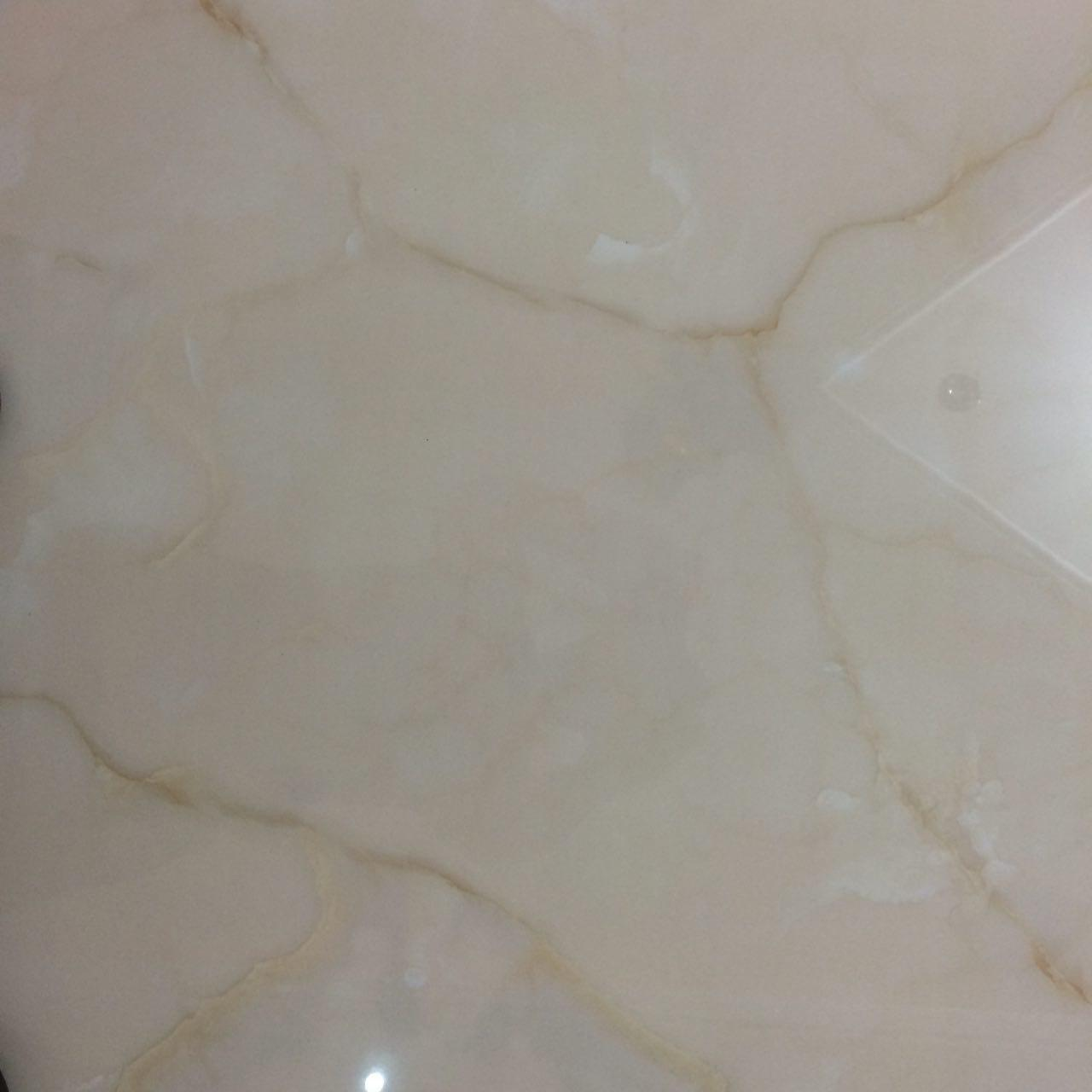 polished glazed porcelain tile